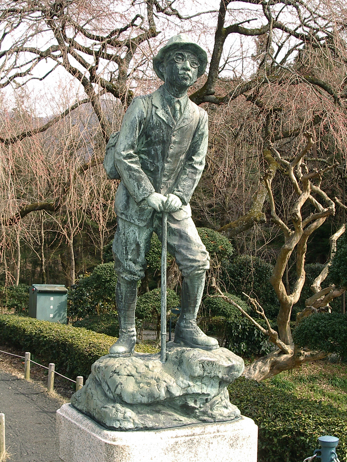 秩父宮殿下登山像。静岡県御殿場市の秩父宮記念公園内で撮影。 Statue of Prince Chichibu. He is the younger brother of Emperor Hirohito.